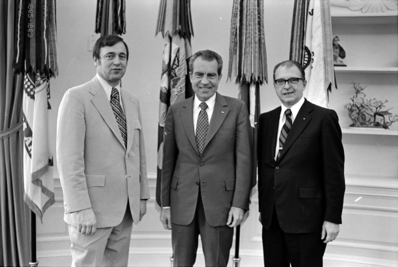 President Richard M. Nixon meets in the White House with Don Young, the new congressman at-large from Alaska, and Jack Coghill, former Alaska state senator and Young's campaign manager.